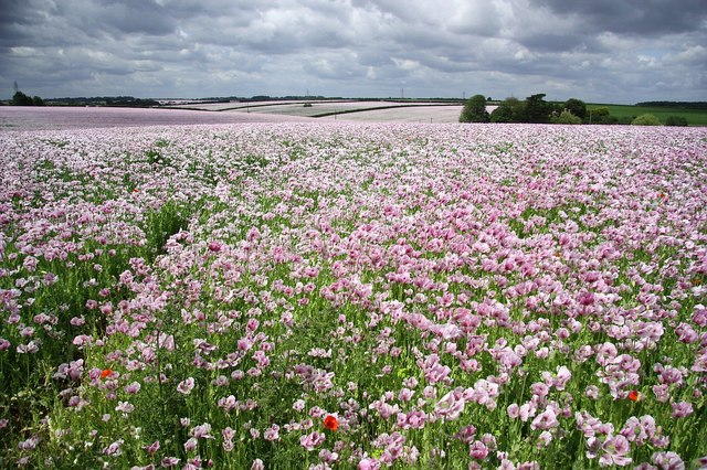 Poppy Fields Vast swathes of purple poppies on Metheringham Heath